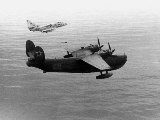 A U.S. Navy Douglas A-4B Skyhawk (BuNo 144987) from Attack Squadron VA-93 Det.Q Blue Blazers intercepting a Soviet Navy Beriev Be-6 (NATO reporting name "Madge") north of Japan in 1964. VA-93 Det.Q was assigned to Carrier Anti-Submarine Air Group 59 (CVSG-59) aboard the aircraft carrier USS Bennington (CVS-20) for a deployment to the Western Pacific and Vietnam from 20 February to 11 August 1964. Note that the A-4B wears the "NG" tail code of Carrier Air Wing 9 (CVW-9), to which VA-93 was regularly assigned, and not the "NT" tail code of CVSG-59.